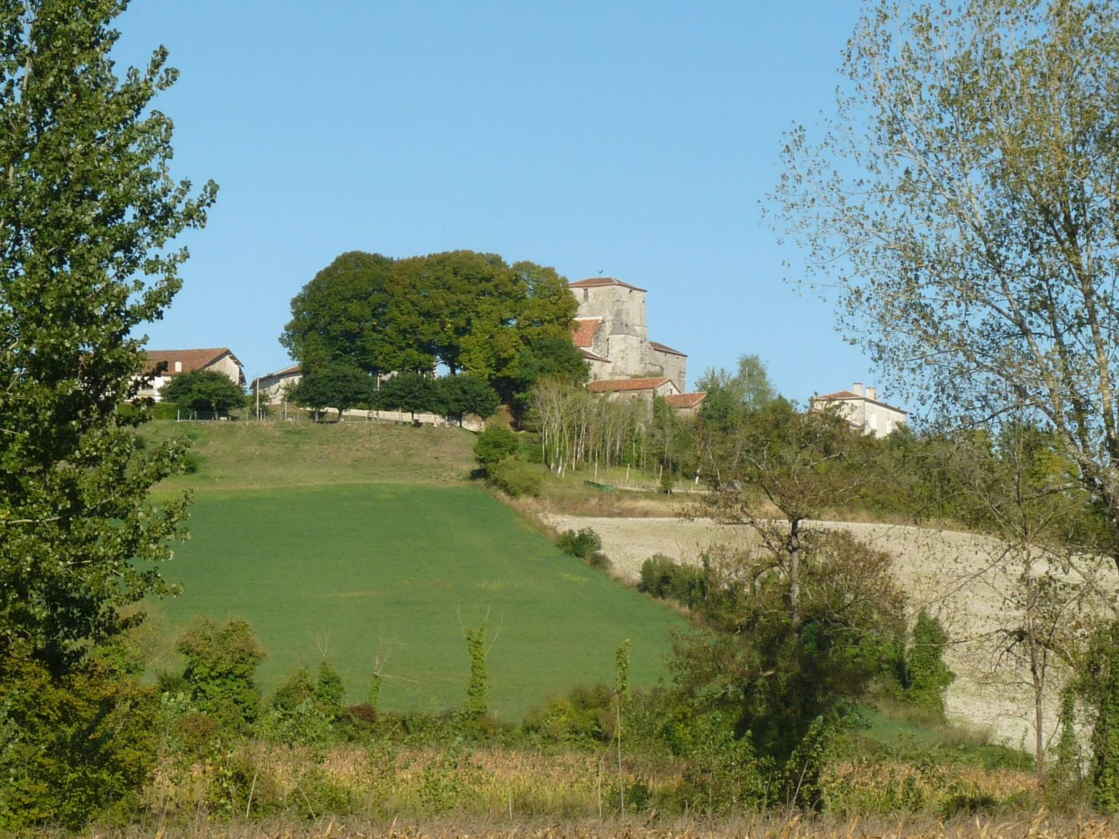 view